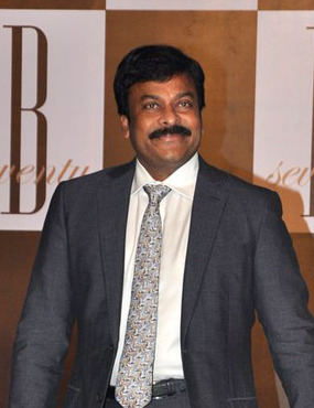 Chiranjeevi at Amitabh Bachchan's 70th birthday celebration